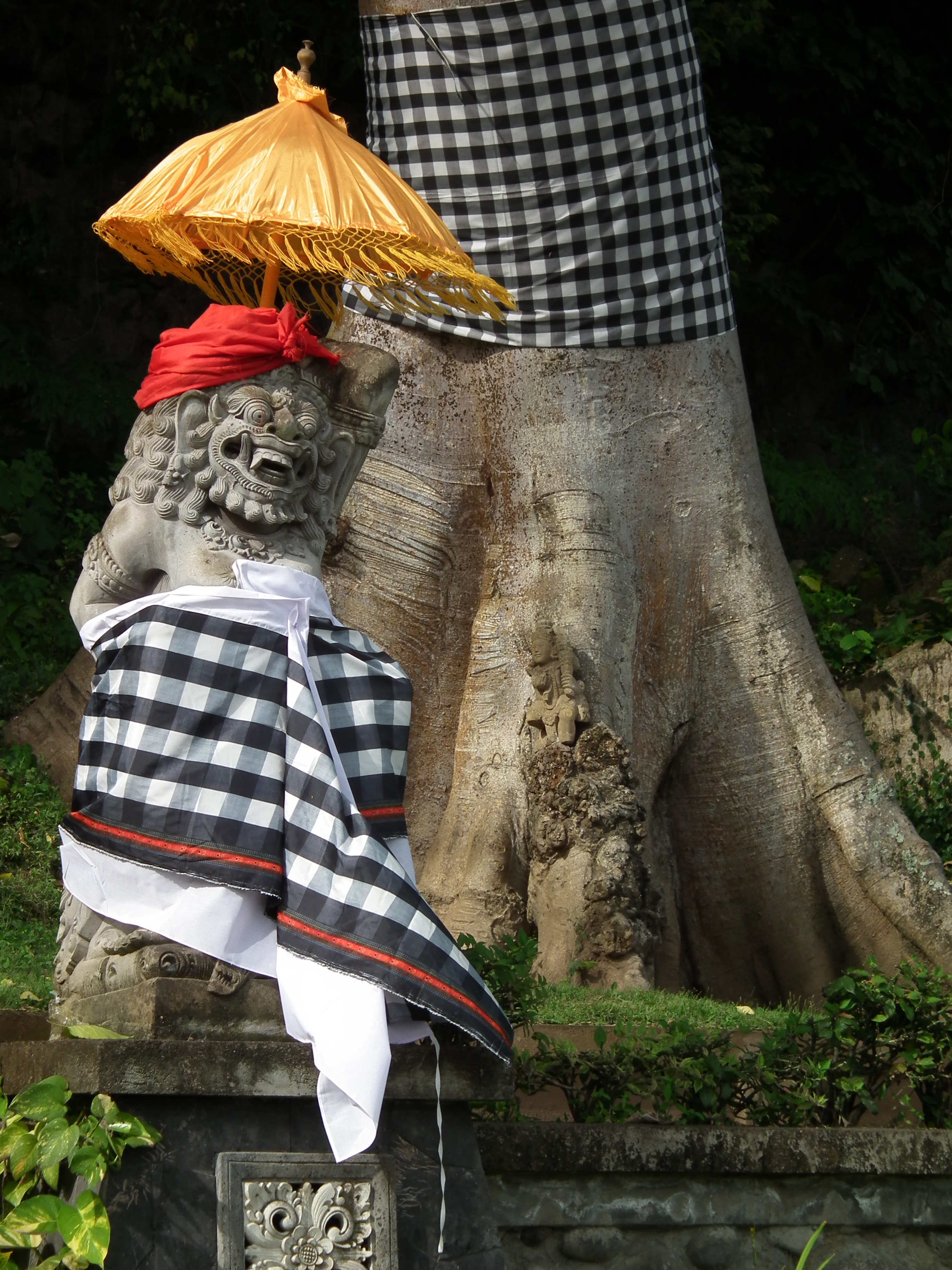 At religious festivals on Bali the sculptures get dressed up and umbrellas are placed by the temples.